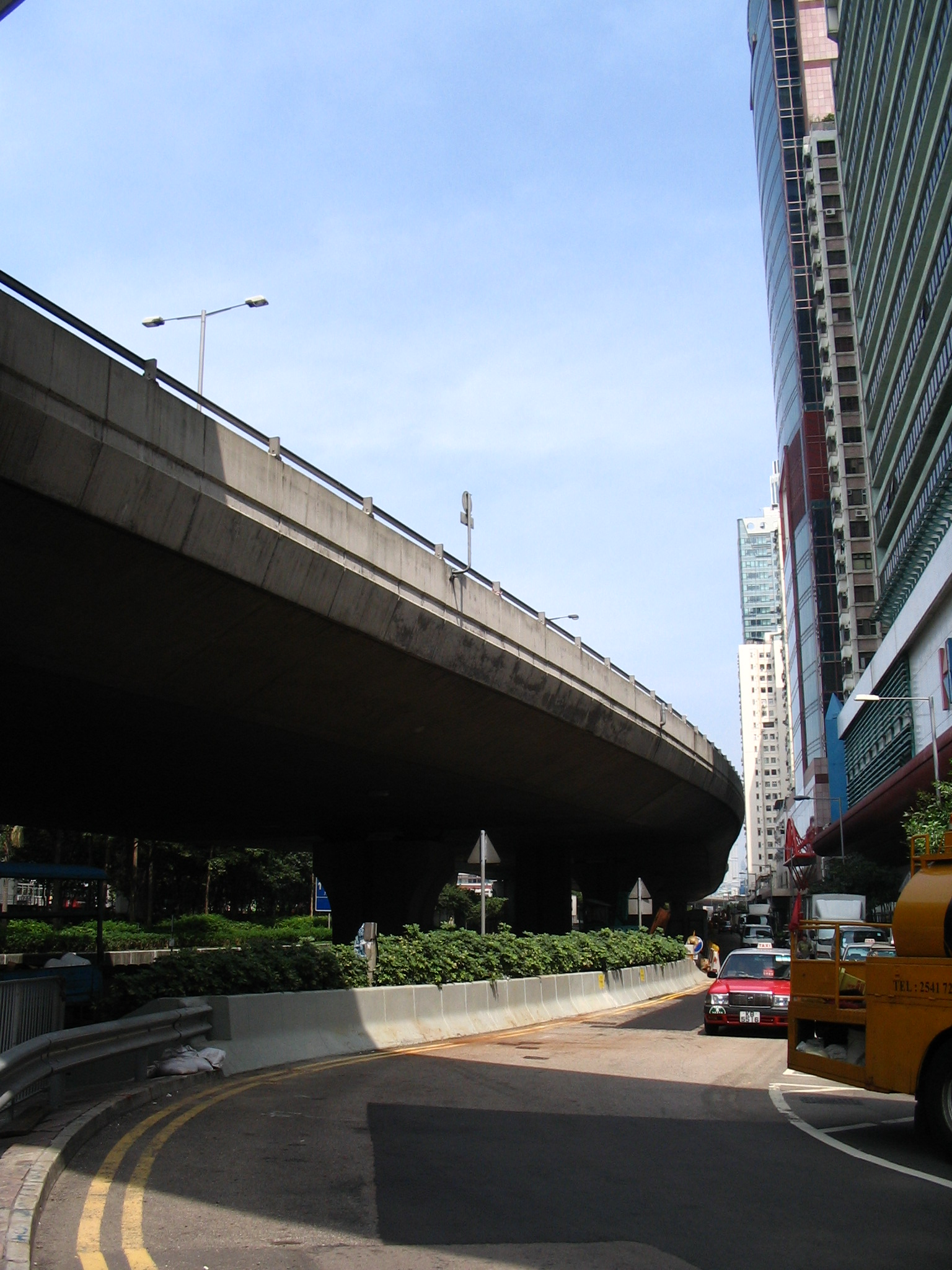 Photo of Connaught Road West